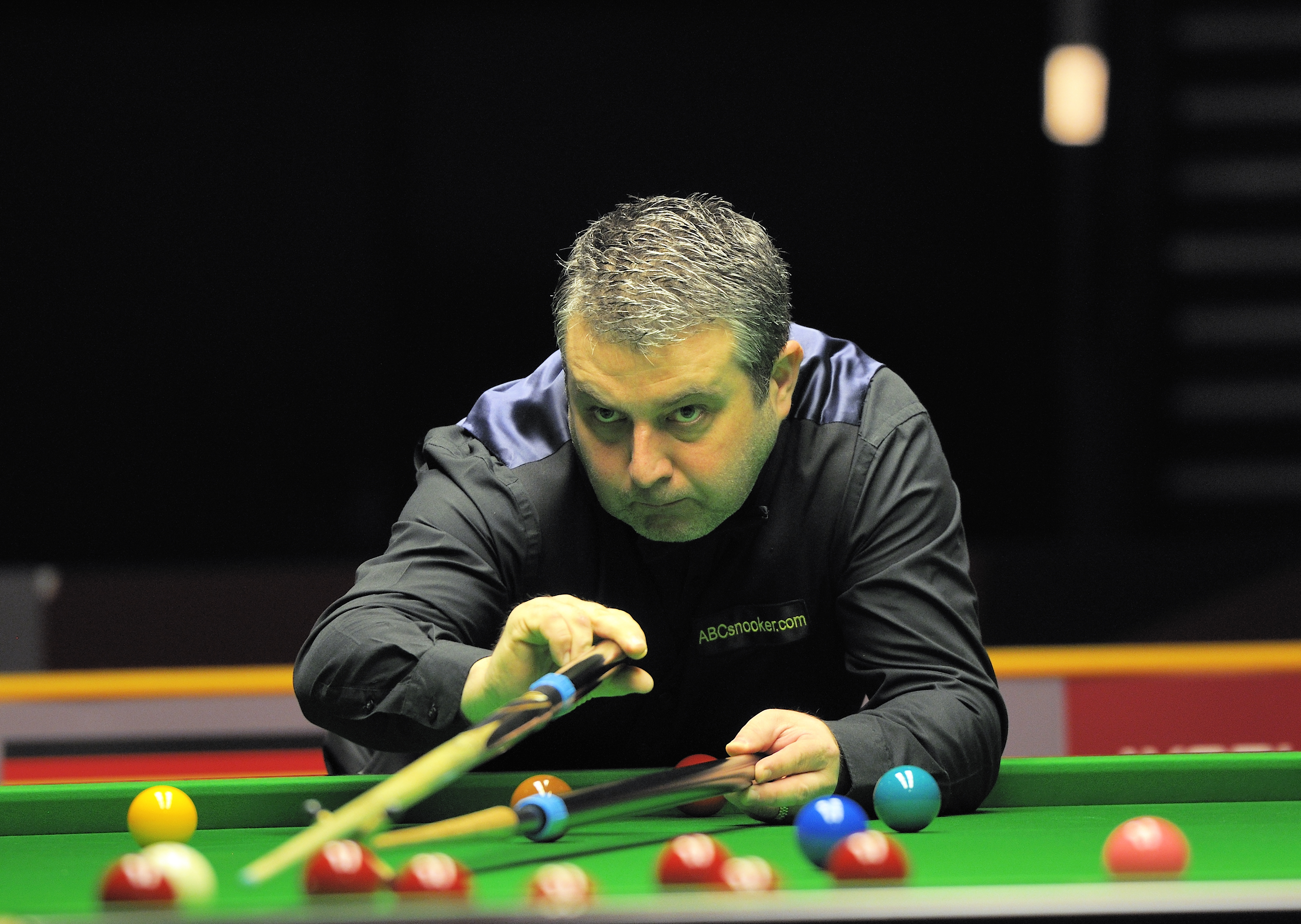 Picture taken in Berlin during the Snooker German Masters in 2014. Rod Lawler.